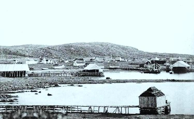 Conche, Newfoundland, 1859